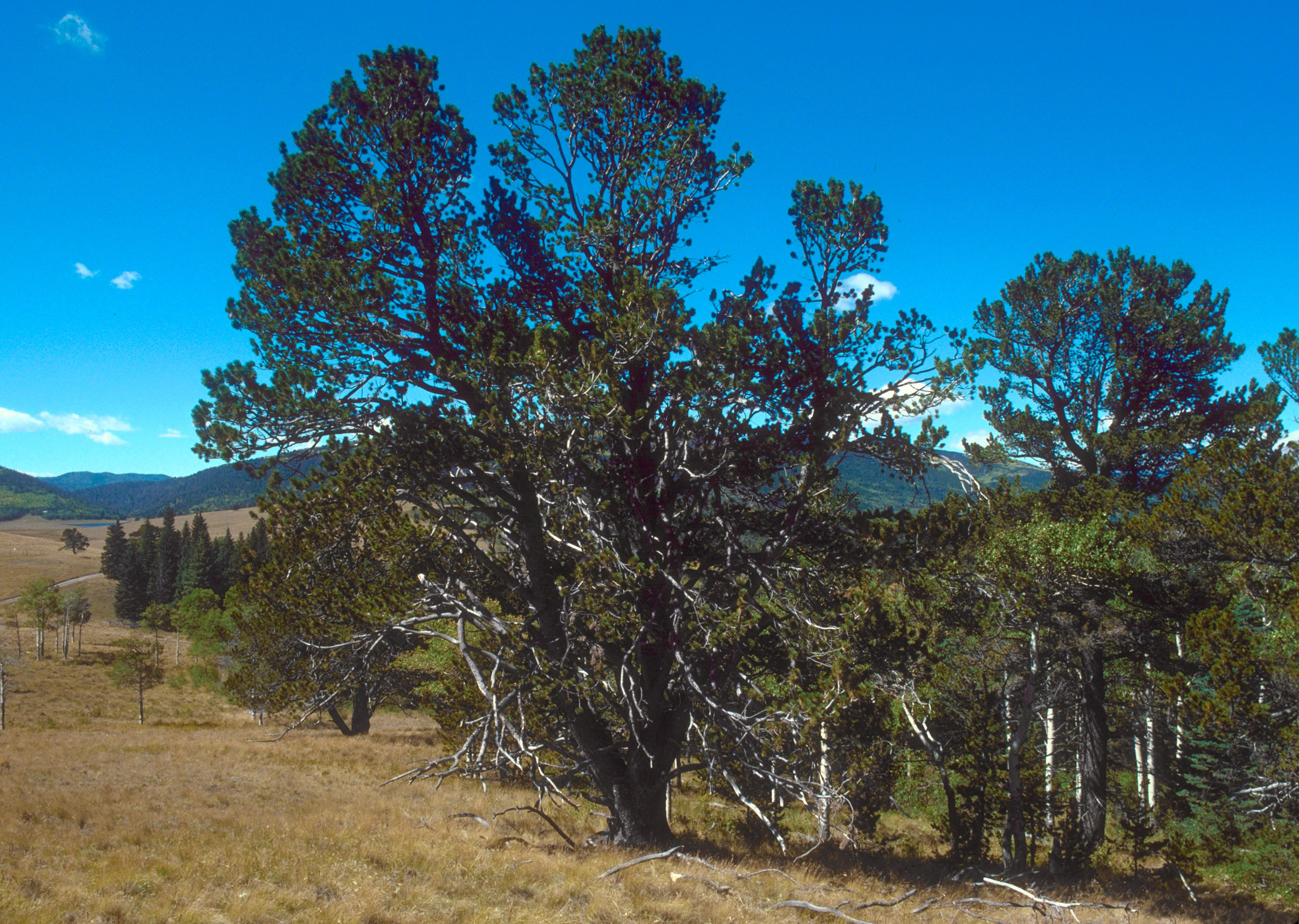 Pinus flexilis trees, Pike and San Isabel National Forests, south-central Colorado